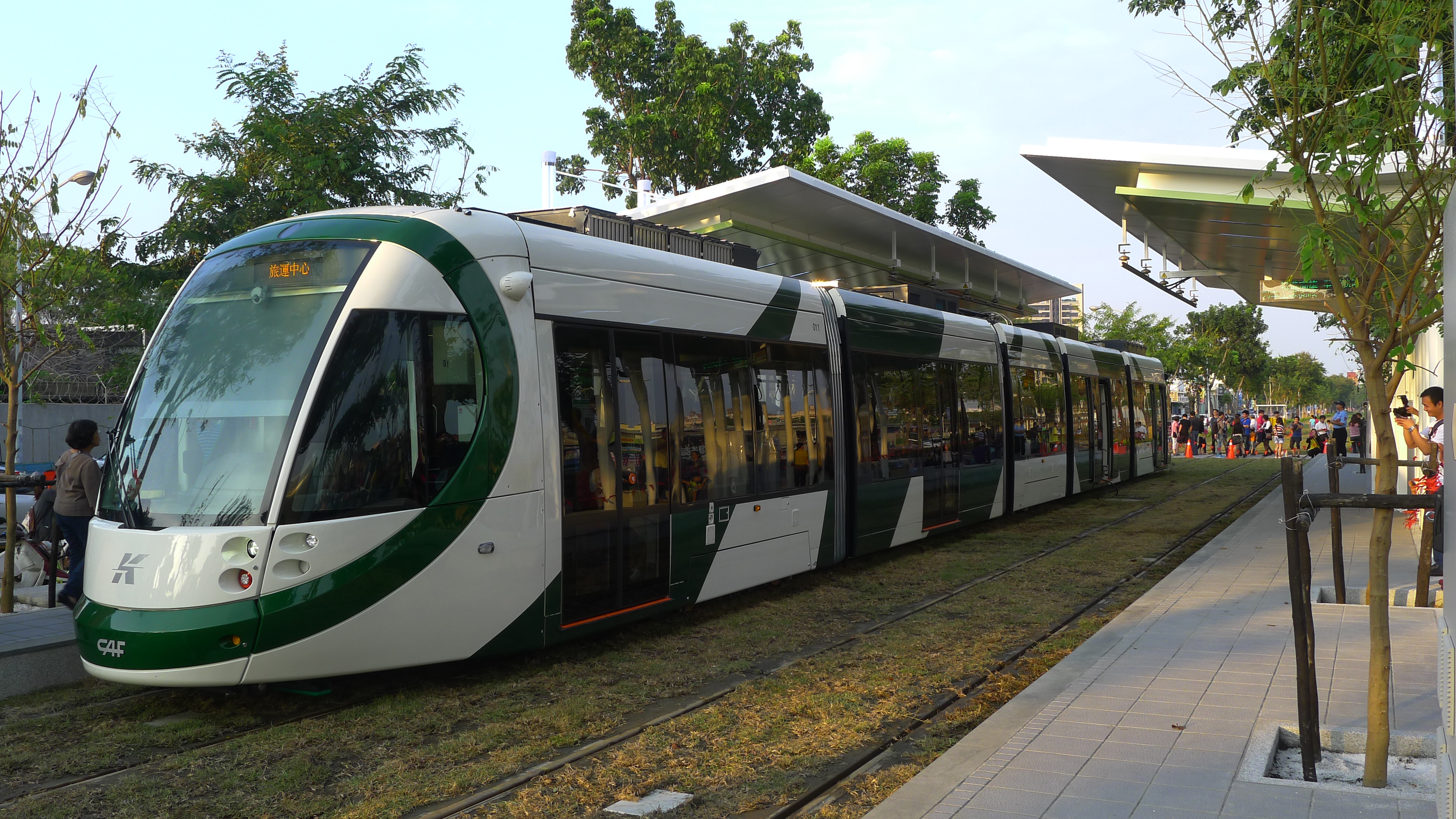 CAF Urbos 3 tram at C2 Station of Kaohsiung LRT Circular Line